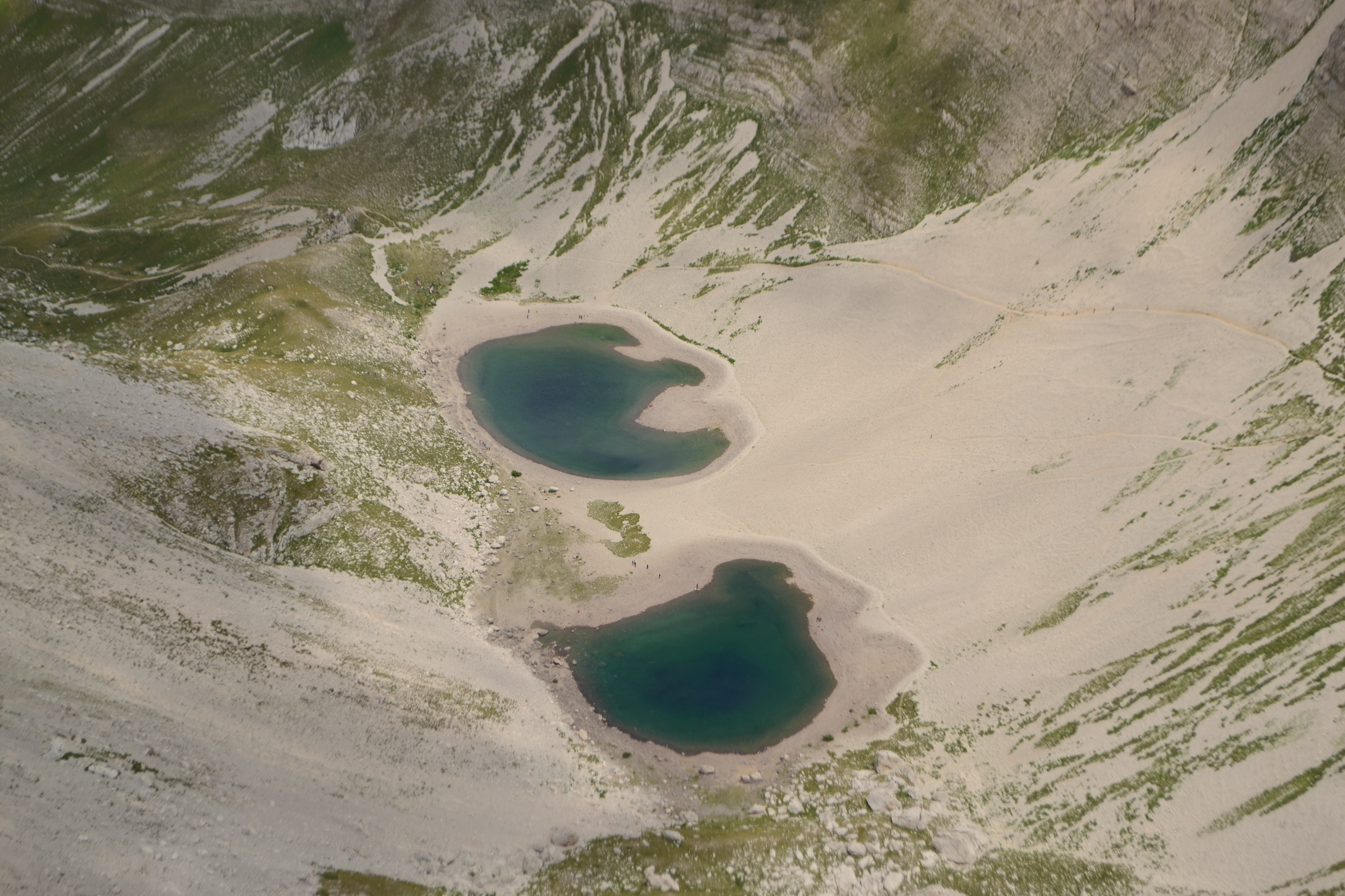 Lago di Pilato visto da Cima del Lago.